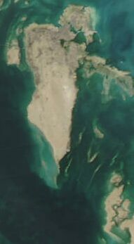 Satellite image of Bahrain in February 2003.